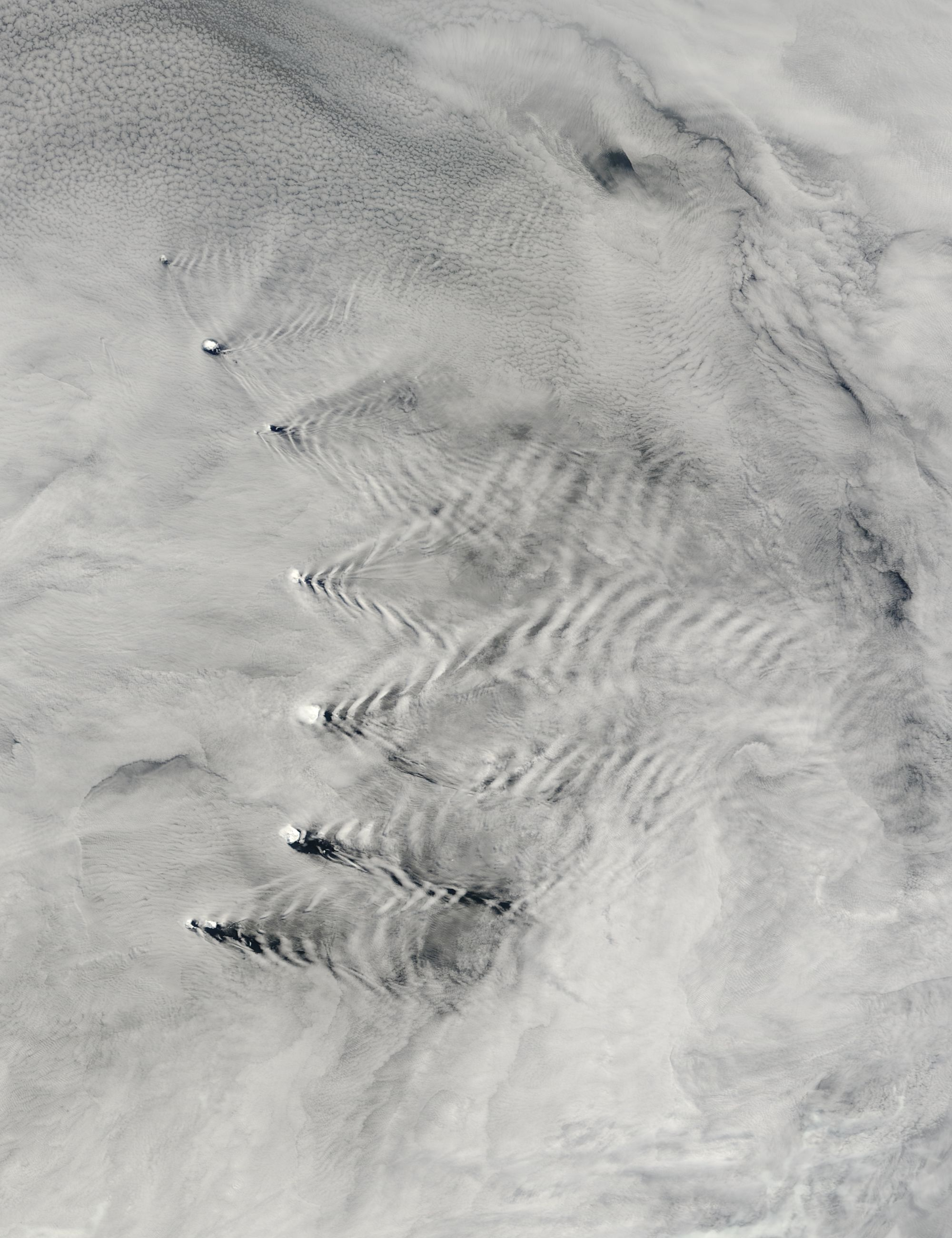 The South Sandwich Islands conspired with air currents to make wave patterns in clouds. Saunders, Montagu, and Bristol Islands, part of the South Sandwich chain, all trigger V-shaped waves that fan out toward the east. The white clouds over the dark ocean water vaguely resemble zebra stripes. The South Sandwich Islands are of volcanic origin—Bristol and Montagu have been active during recorded history—and all the islands poke rugged summits above the ocean surface. The islands disturb the smooth flow of air, creating waves that ripple through the atmosphere downwind of the obstacles.